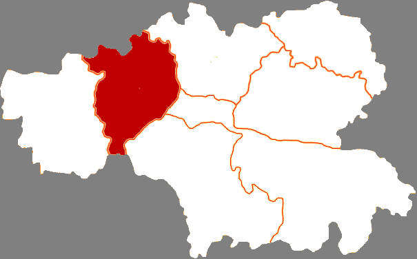 Location of Gangu county in Tianshui city, China